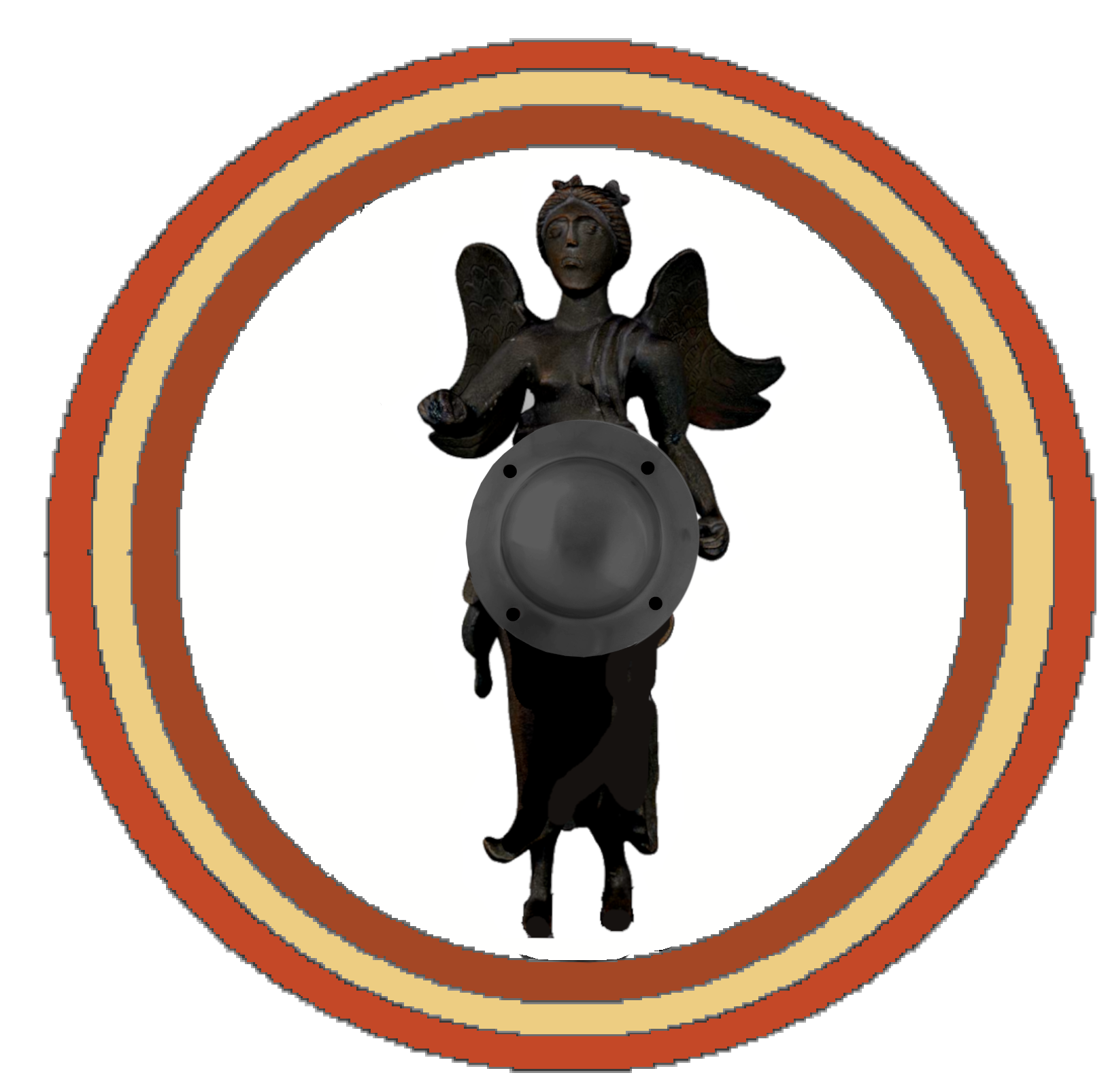 Shield patern o.t. Cornuti iuniores, one of the auxilia palatina units under the Magister Peditum in his Italian command.